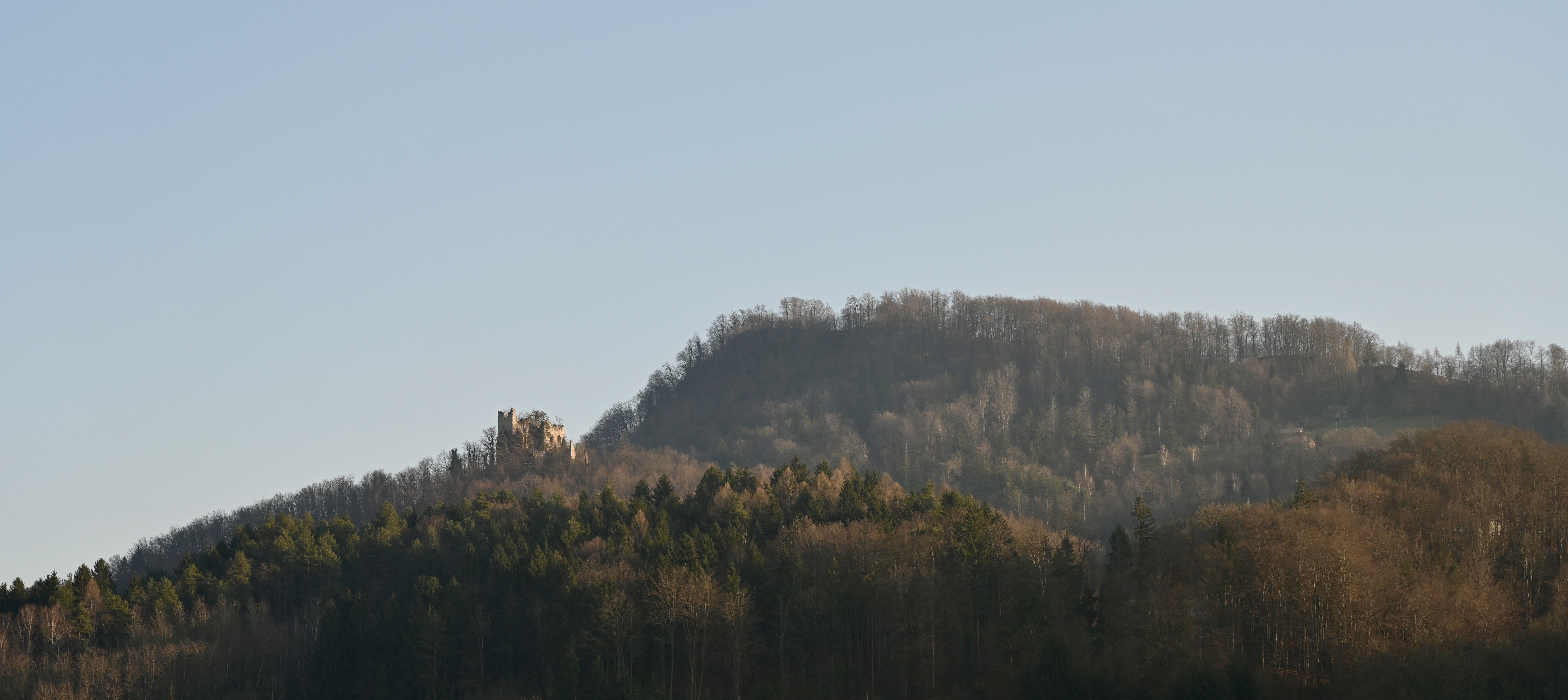 Ruins of castle Rifknik, near Šentjur, Slovenian Styria